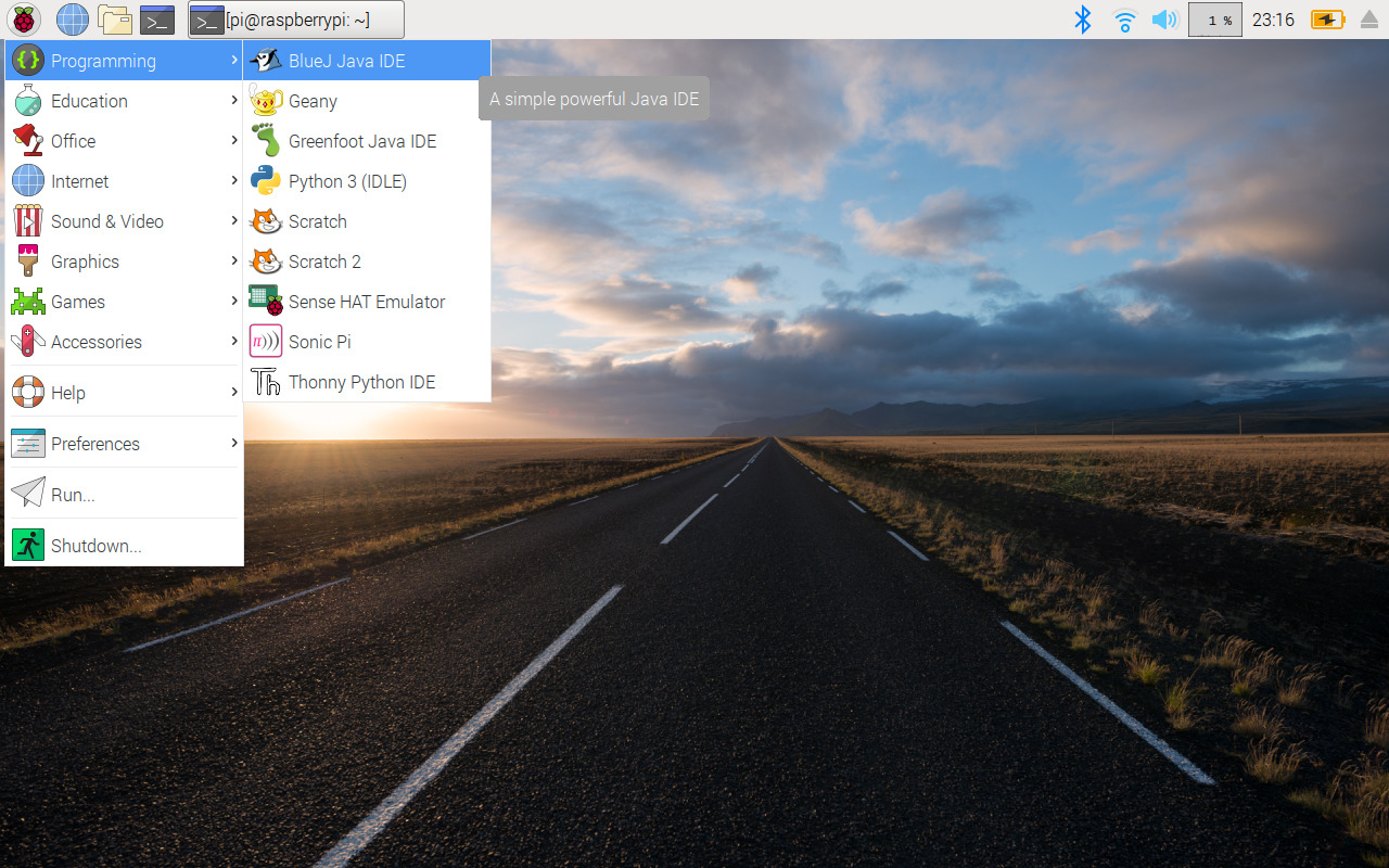 Raspbian 2019.04 Desktop